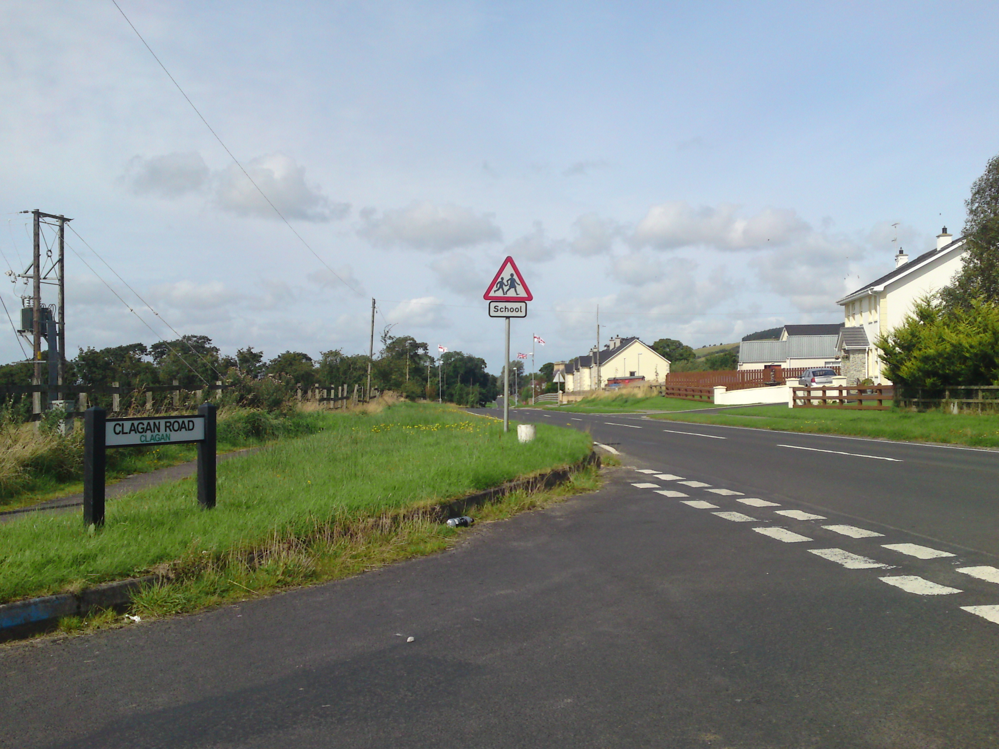 Clagan Road in Sraidarran, Londonderry, Northern Ireland